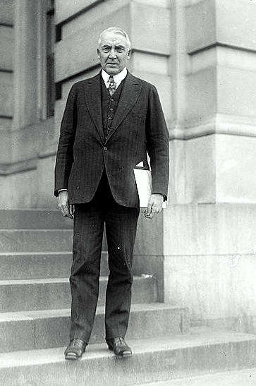 Cropped and edited version of Warren G. Harding.